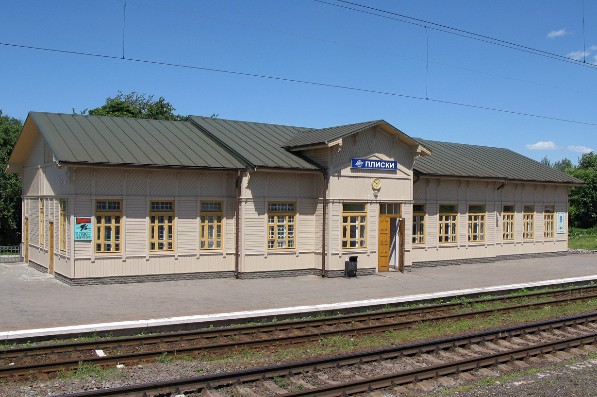 Plysky railway station, South-Western Railway, Ukraine